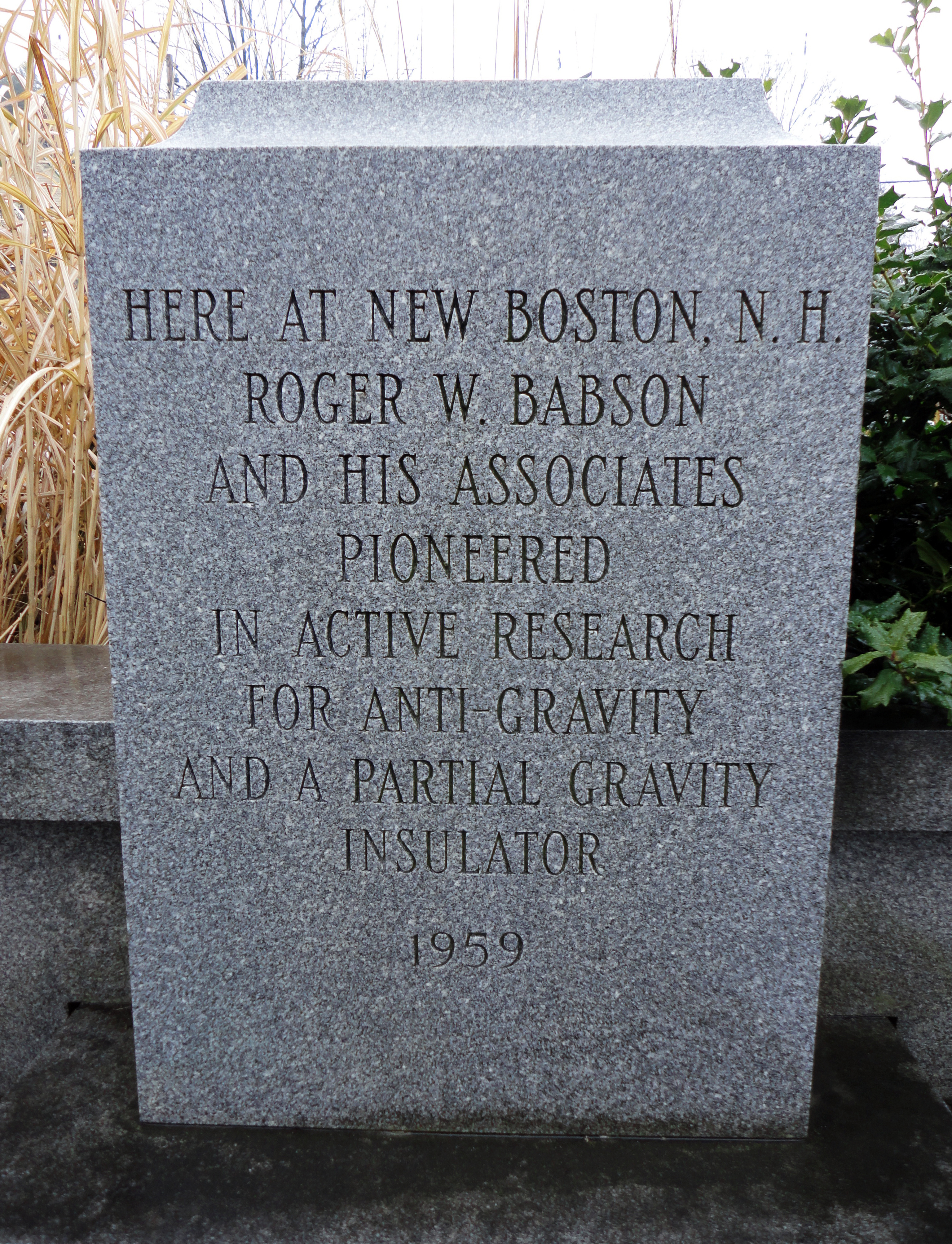 monument in New Boston NH, USA, to Roger Babson and his "active research for anti-gravity and a partial gravity insulator"